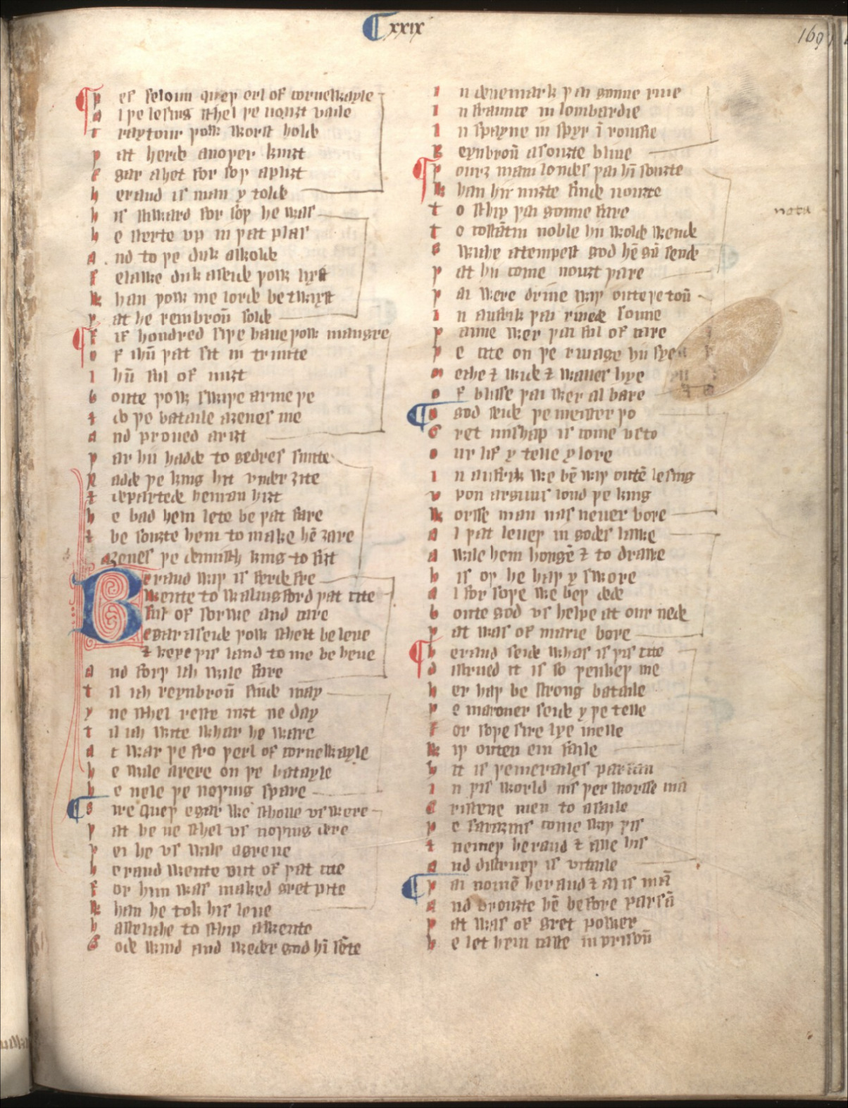 Produced in London in the 1330s, the manuscript provides a unique insight into the English language and literature that Chaucer and his generation grew up with and were influenced by. It acquired its name from its first known owner, Lord Auchinleck, who discovered the manuscript in 1740 and donated it to the precursor of the National Library in 1744. Auchinleck contains a large collection of Middle English poetry, containing a wide range of genres, the above page being one of eight romances; Reinbroun in particular shows an interest in the supernatural and the fairy world.